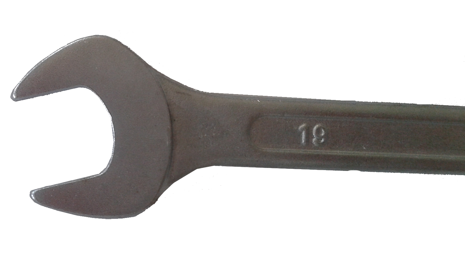 Wrench